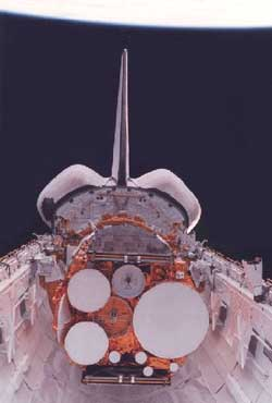 Declassified picture showing DSCS-III satellites in Atlantis's payload bay during STS-51-J.